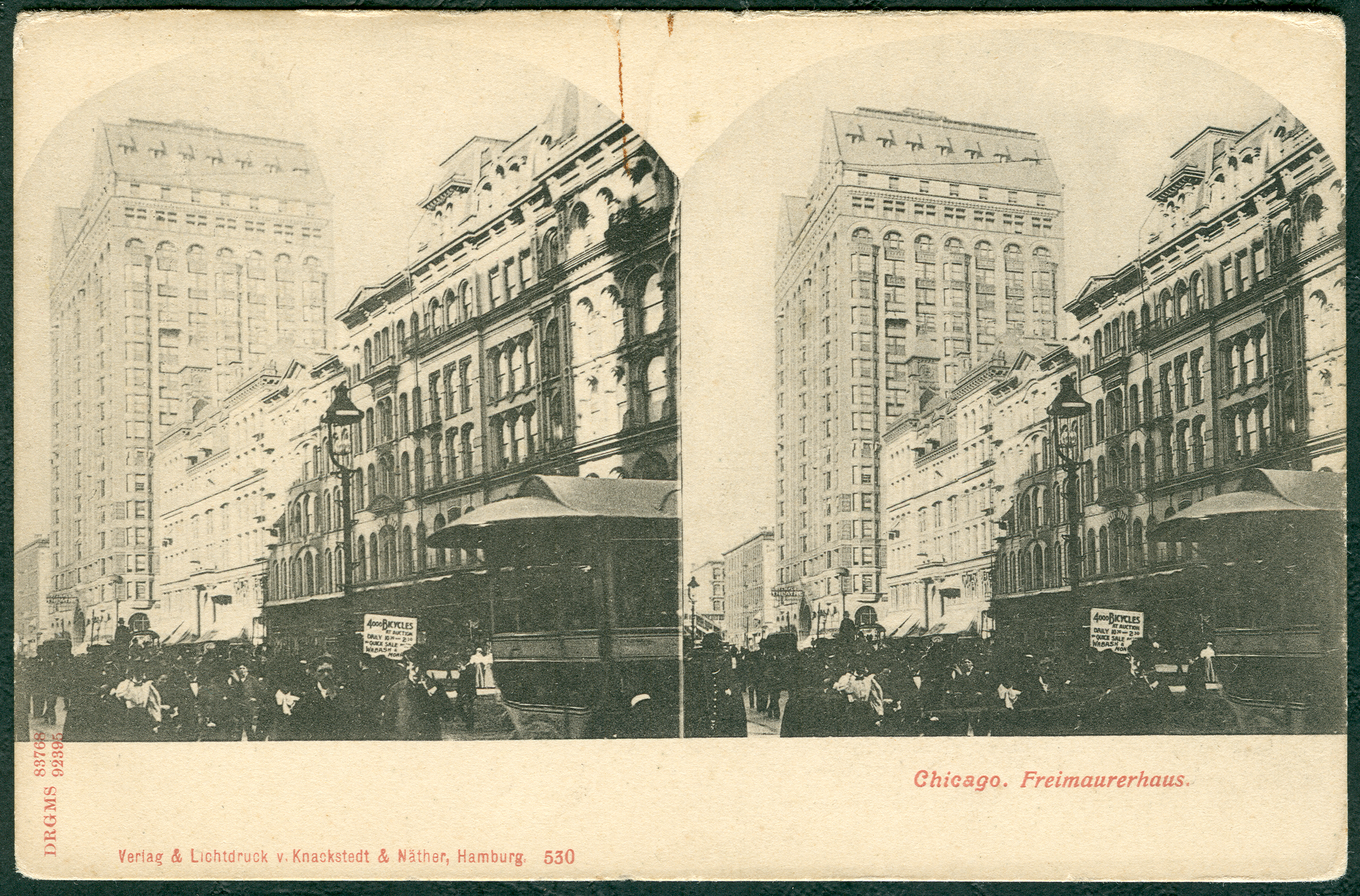 Stereoscopy as postcard no. 530 from Knackstedt & Näther in Hamburg with a view to the Masonic Temple in Chicago ...